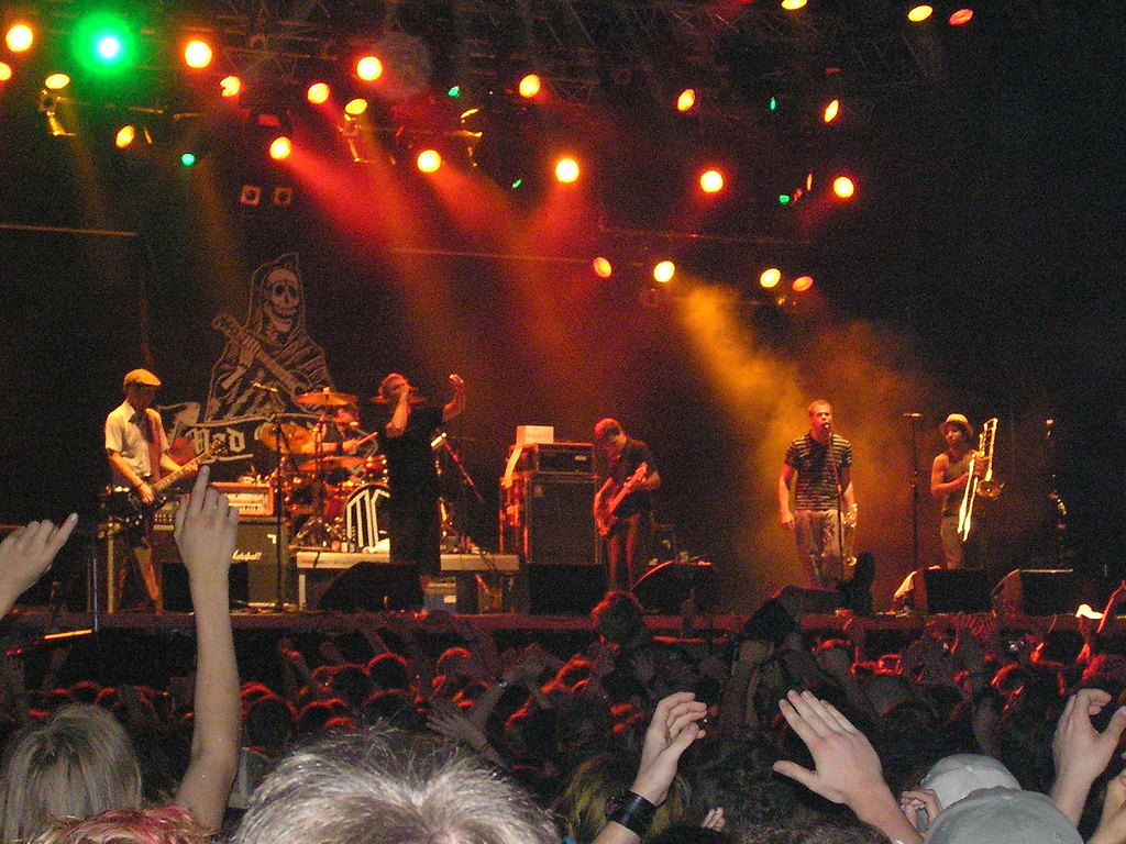 Die Caddies beim Rheinkultur-Festival, Bonn... The Caddies at Rheinkultur festival, Bonn... See where this picture was taken. [?]